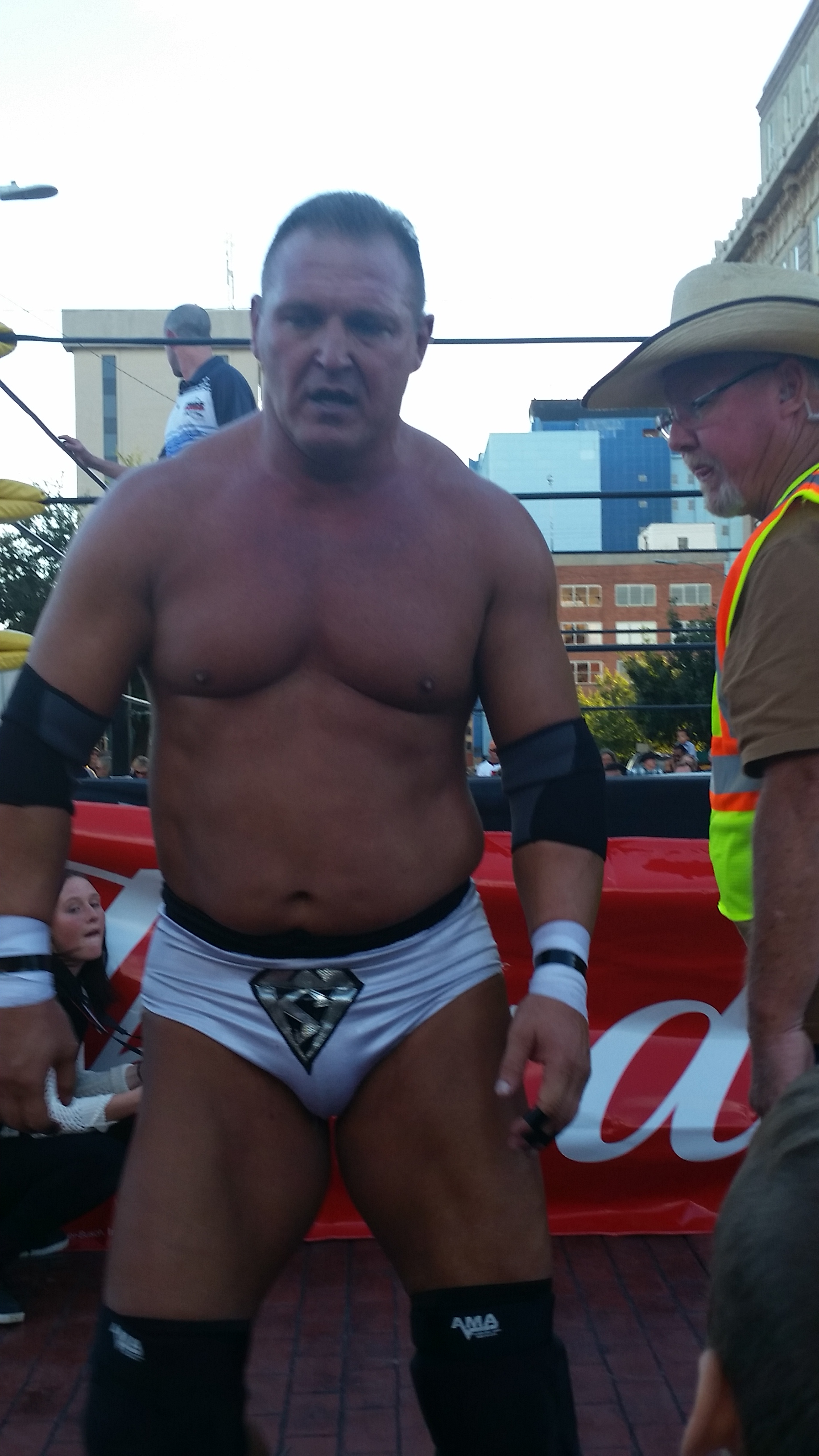 Tim Storm wrestling in Wichita Falls, TX, on October 9, 2016.